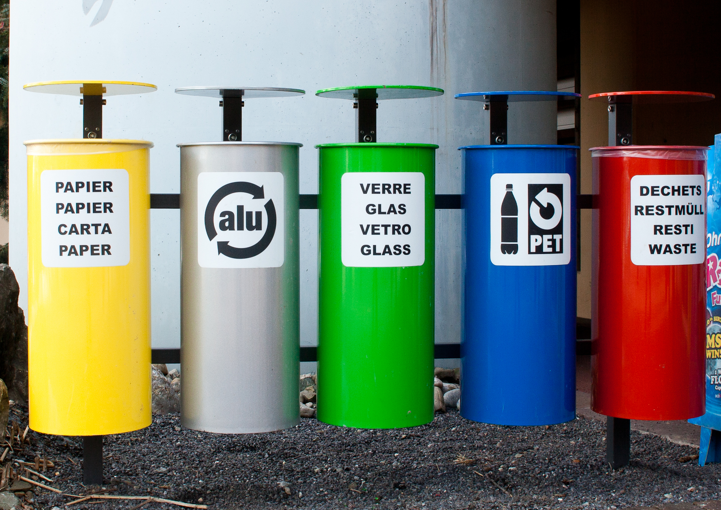 Bins to collect paper, aluminium, glass, PET bottles and incinerable waste (Switzerland). The labels are written in French, German, Italian (official languages) and English.